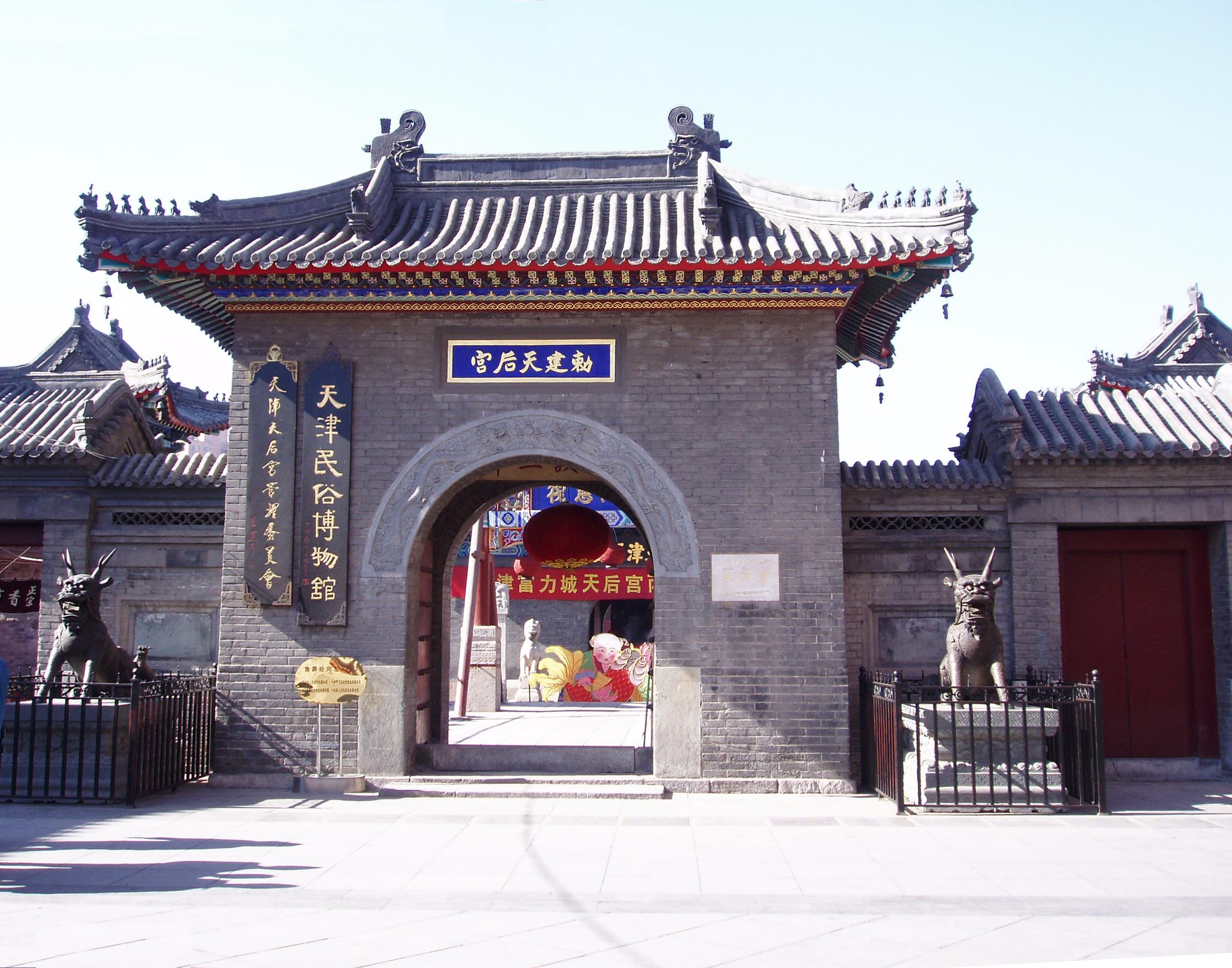 Matsu temple gate — at the Tianhou Gong ("Heavenly Empress Palace") in Nankai District, Tianjin, China